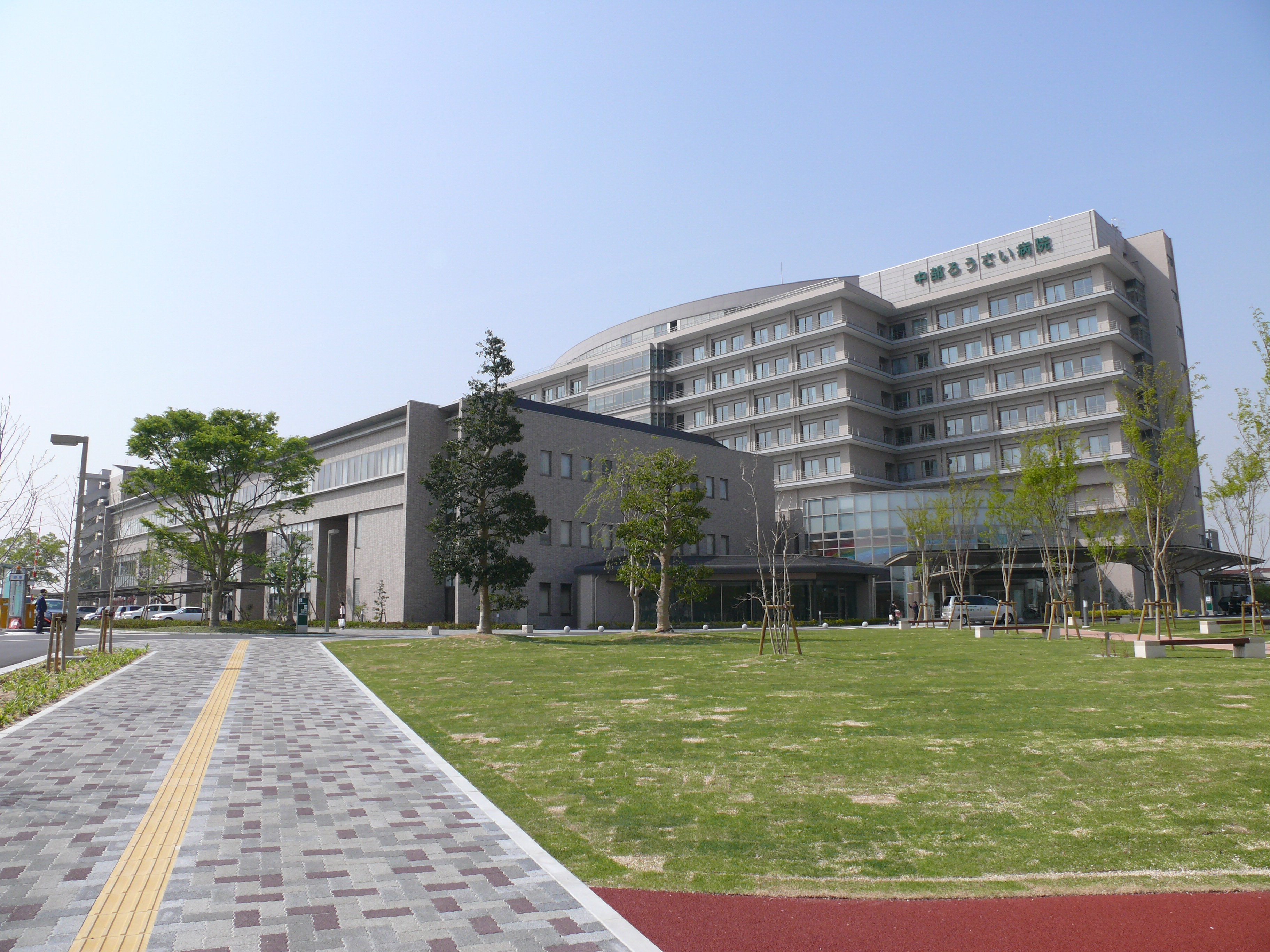 Chubu Rosai Hospital.